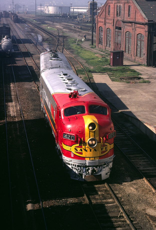 Richmond Yard, California